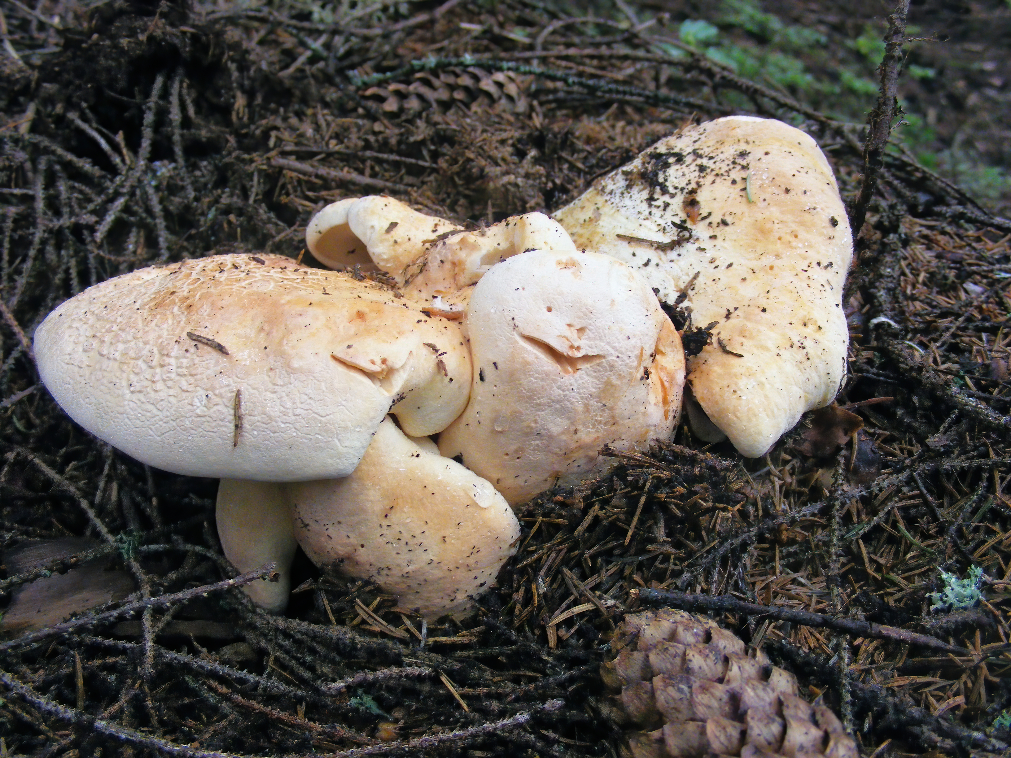 Albatrellus ovinus